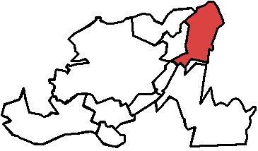 Maps based on images by Earl Warren, from the 2007 elections